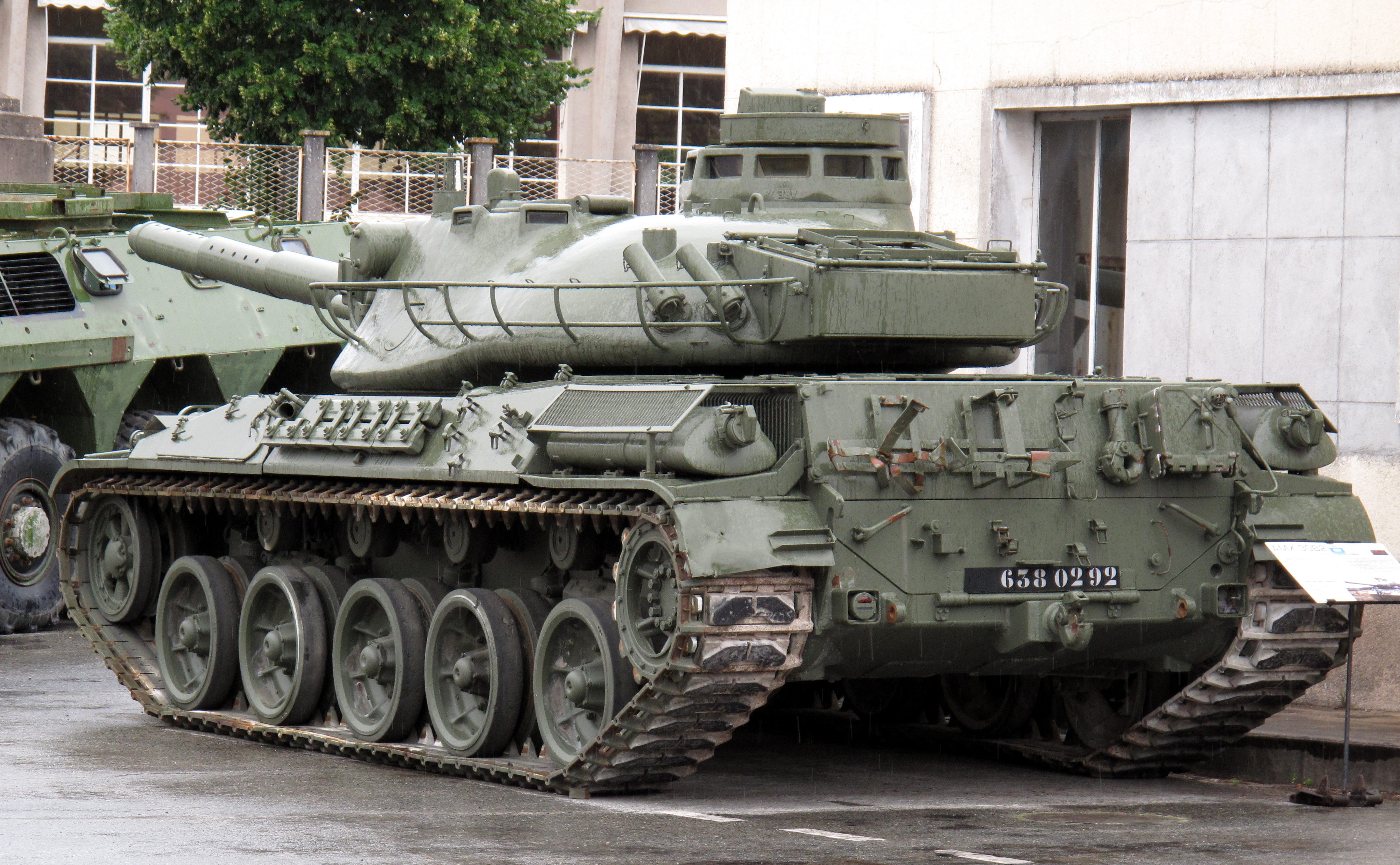 AMX-30B2. On display at Saumur Général Estienne museum.